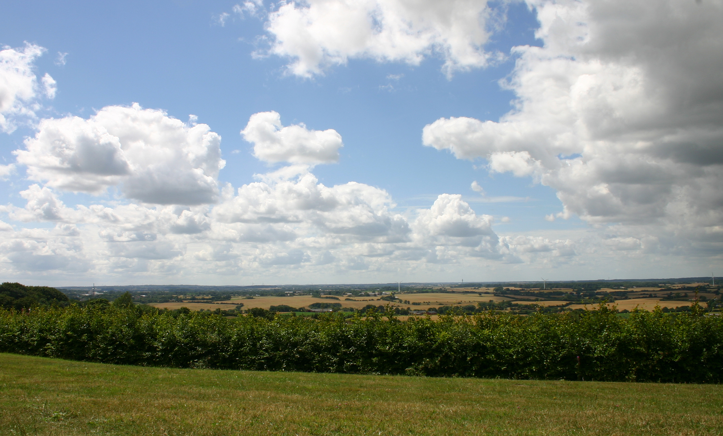 A view towards west from Skamlingsbanken,which the highest point in Southjutland. 113 meter above sealevel.